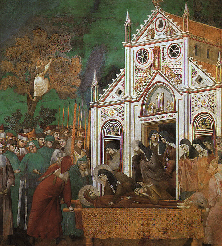 Legend of St Francis